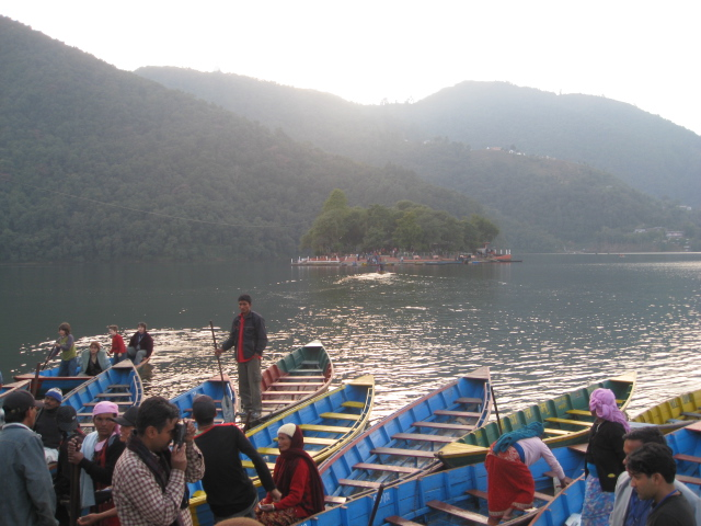 A lake in Nepal.